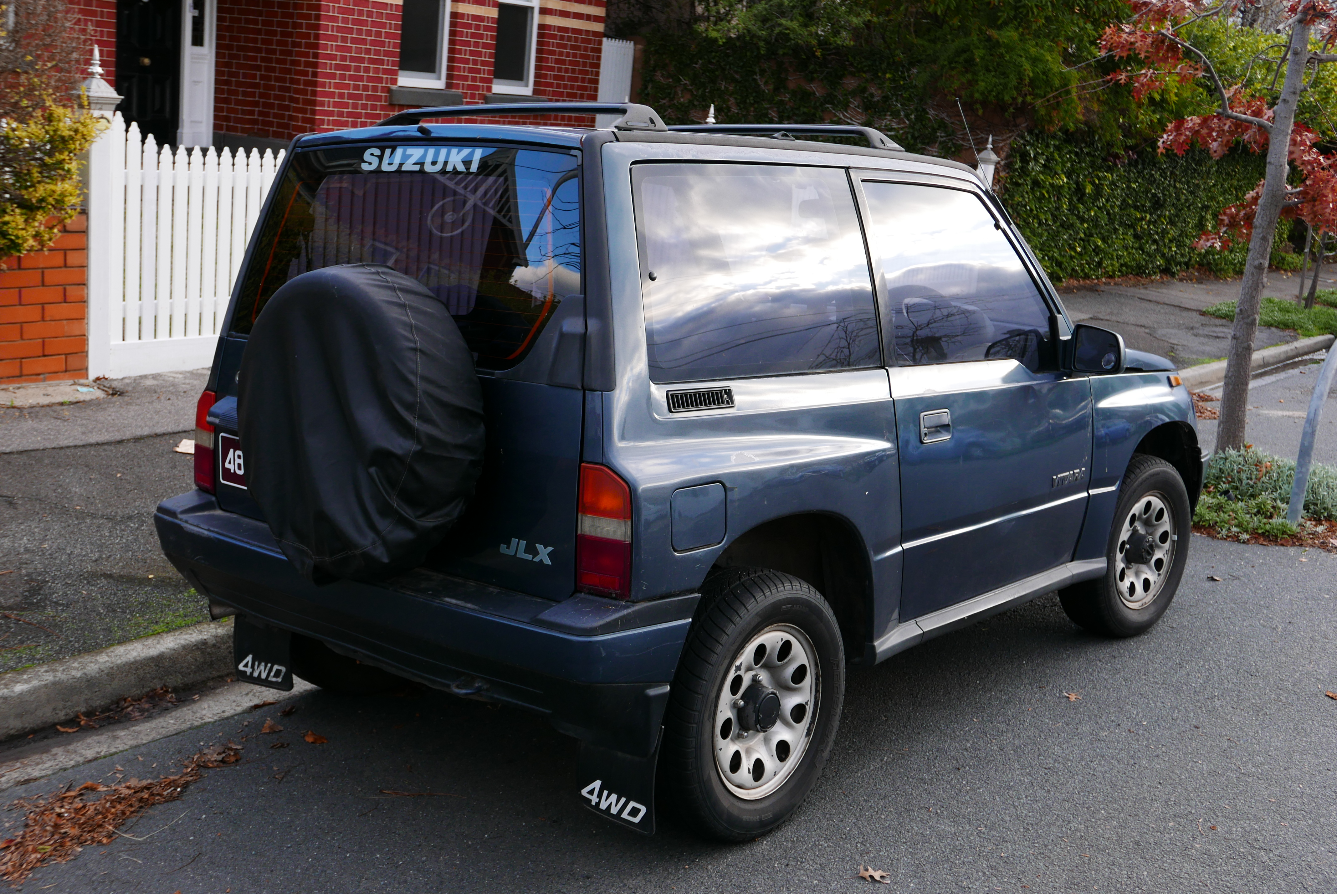 1988–1990 Suzuki Vitara (SE416V Type1) JLX hardtop. As the registration is a club permit, the vehicle must be over 25 years of age, and thus pre-1990. Photographed in Northcote, Victoria, Australia.